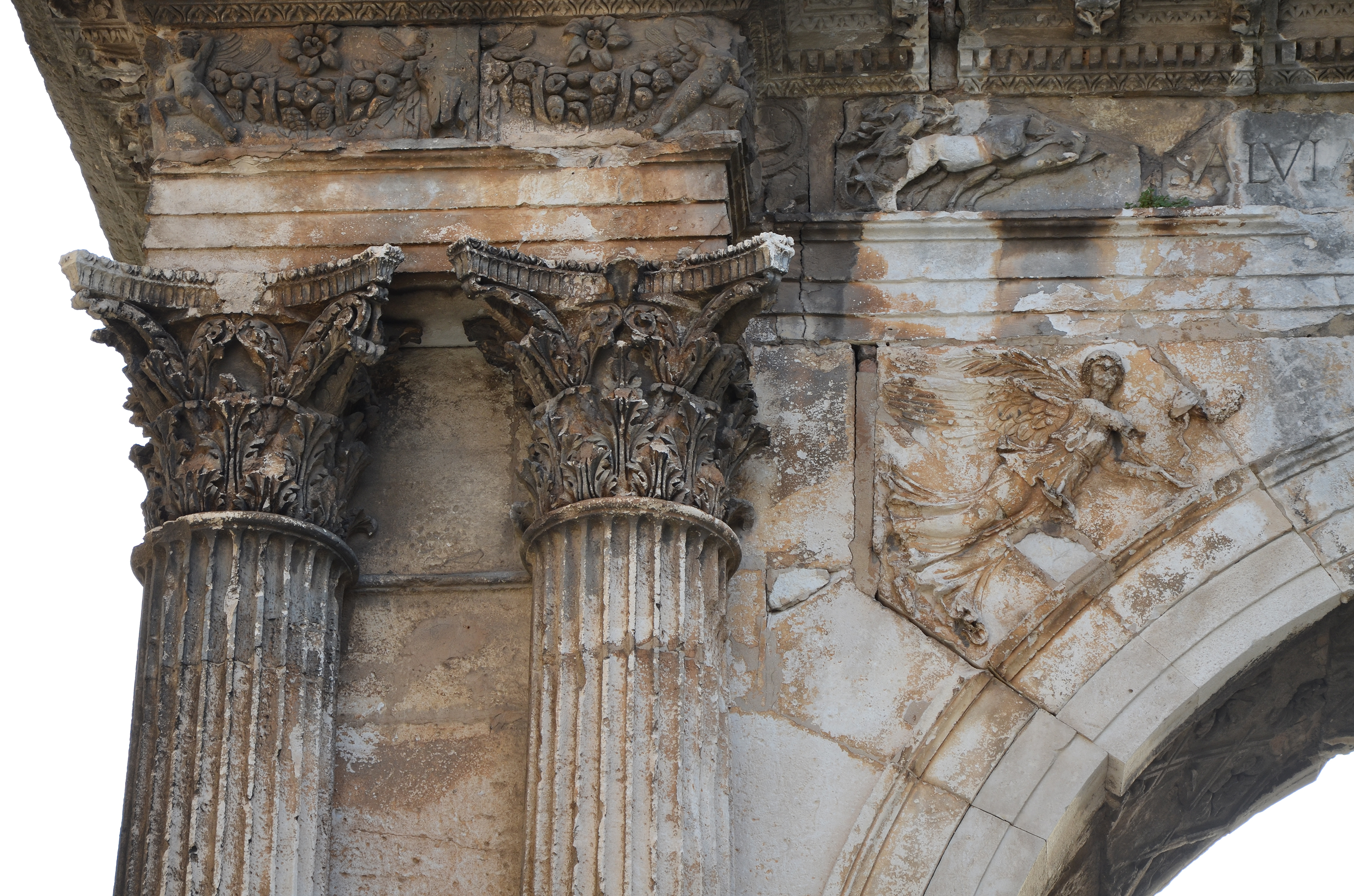 Arch of the Sergii, Colonia Pietas Iulia Pola Pollentia Herculanea, Histria